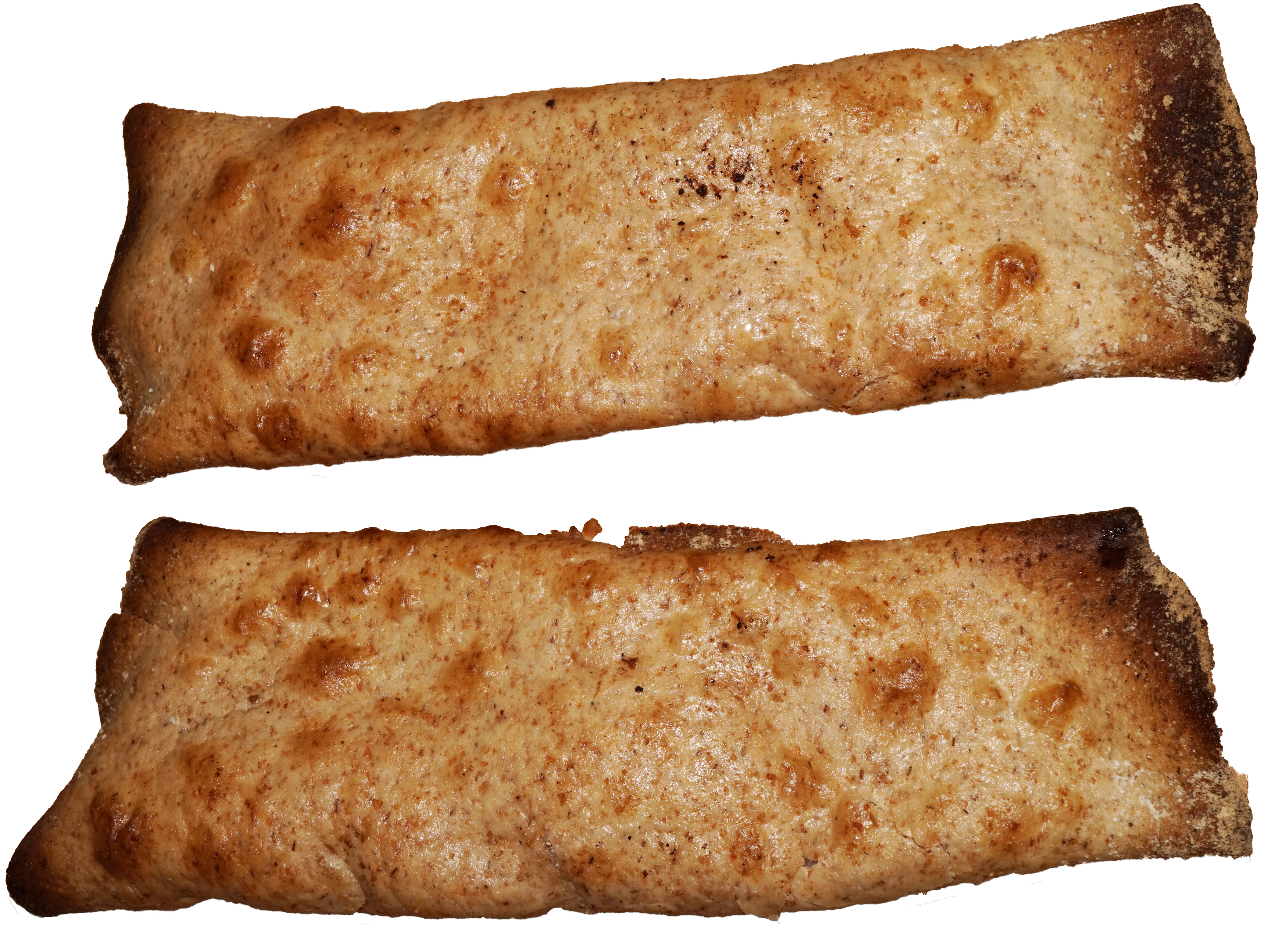 Sultsina pastry. Producted by Joensuun Herkkuleipomo, Finland.